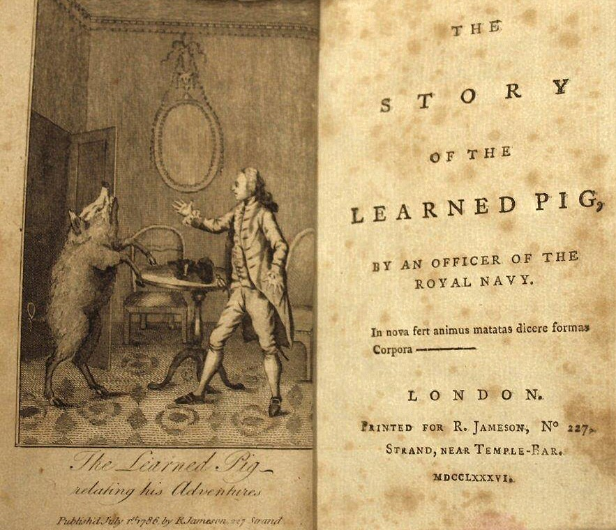 Title page of The Story of the Learned Pig by an Officer of the Royal Navy, 1786